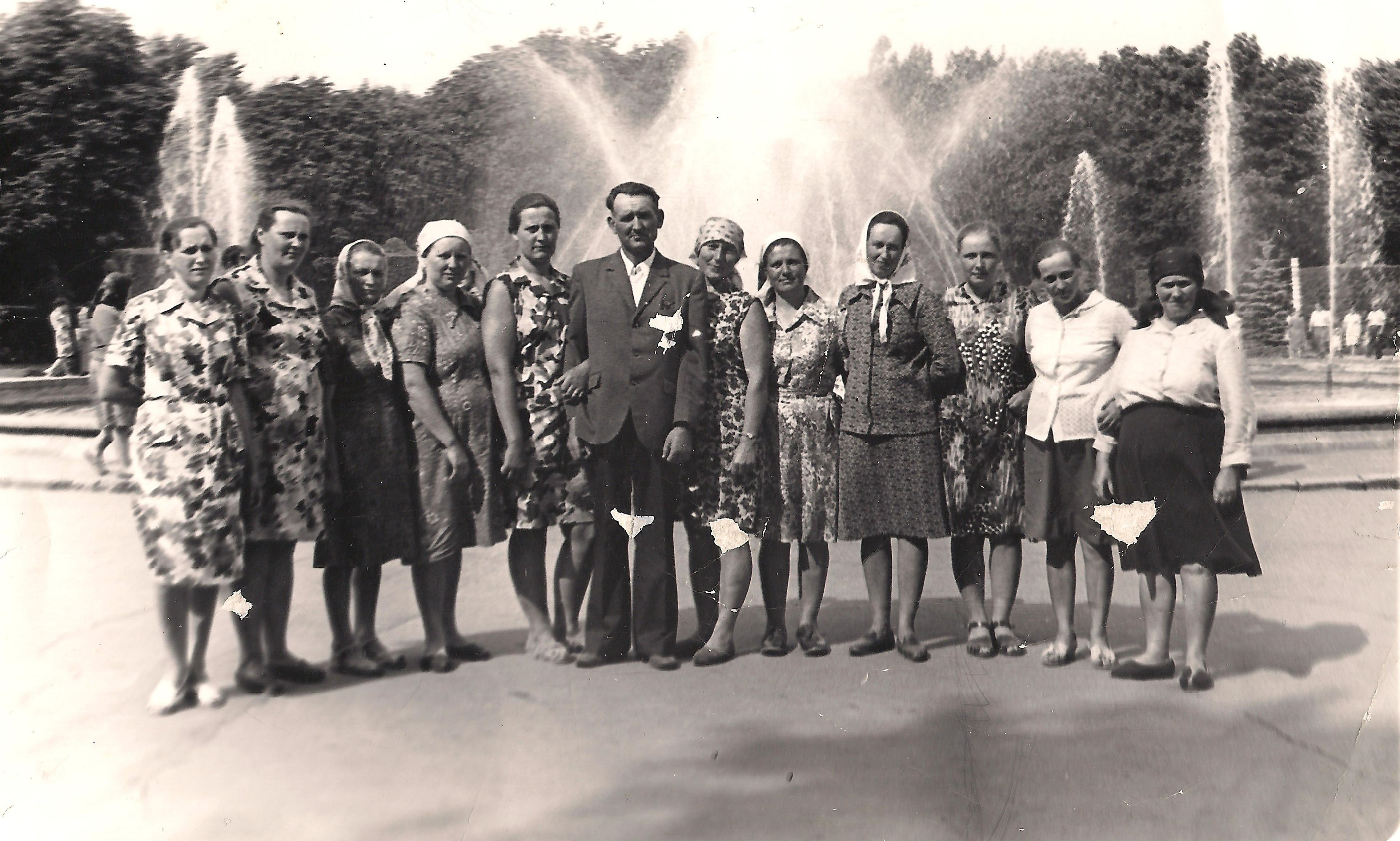 Передова ланка на екскурсії у м. Вінниці (1975 р.)